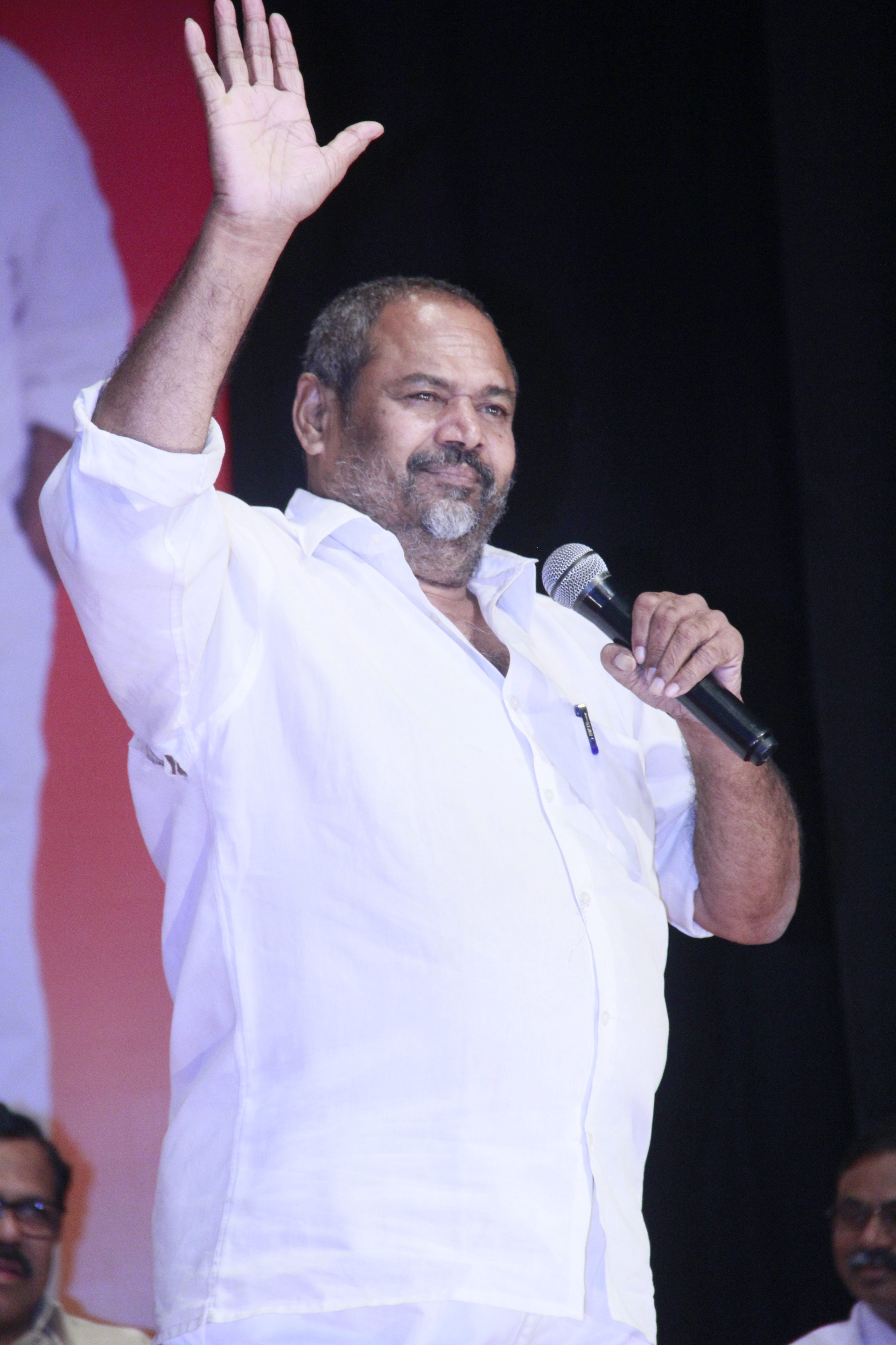 R.Narayana Murthy ... ఆర్.నారాయణమూర్తికి అక్కినేని సిల్వర్ క్రౌన్ ప్రదాన కార్యక్రమంలో